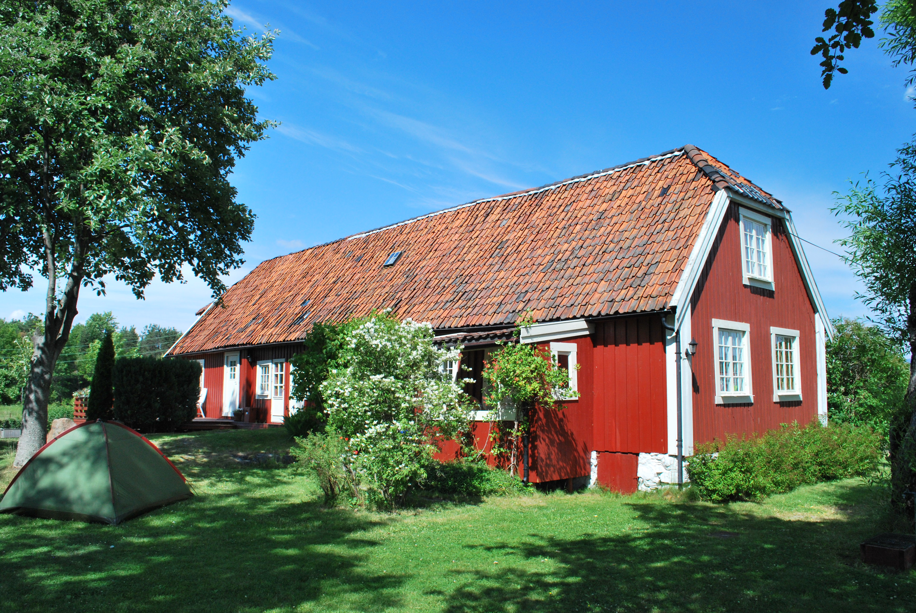 "Stamhuset", built 1700's, cafe and dance hall during 1700- and 1800's, now private summer house, Lindøya, Oslo